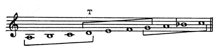 Scale of Shur (Azerbaijani mugham)